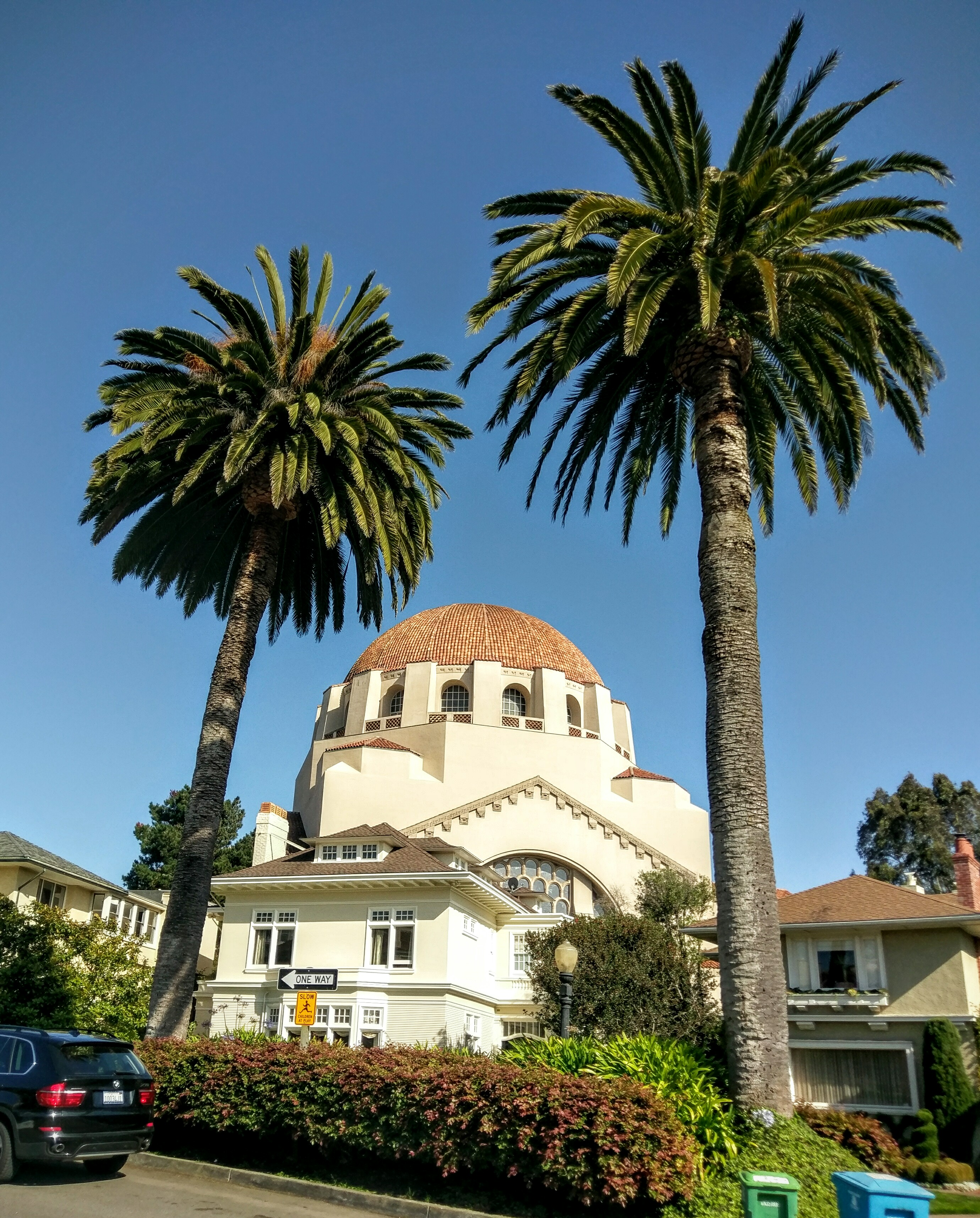 Temple Emanu-El rises above homes on Presidio Terrace in San Francisco. Photo by Jim Heaphy.